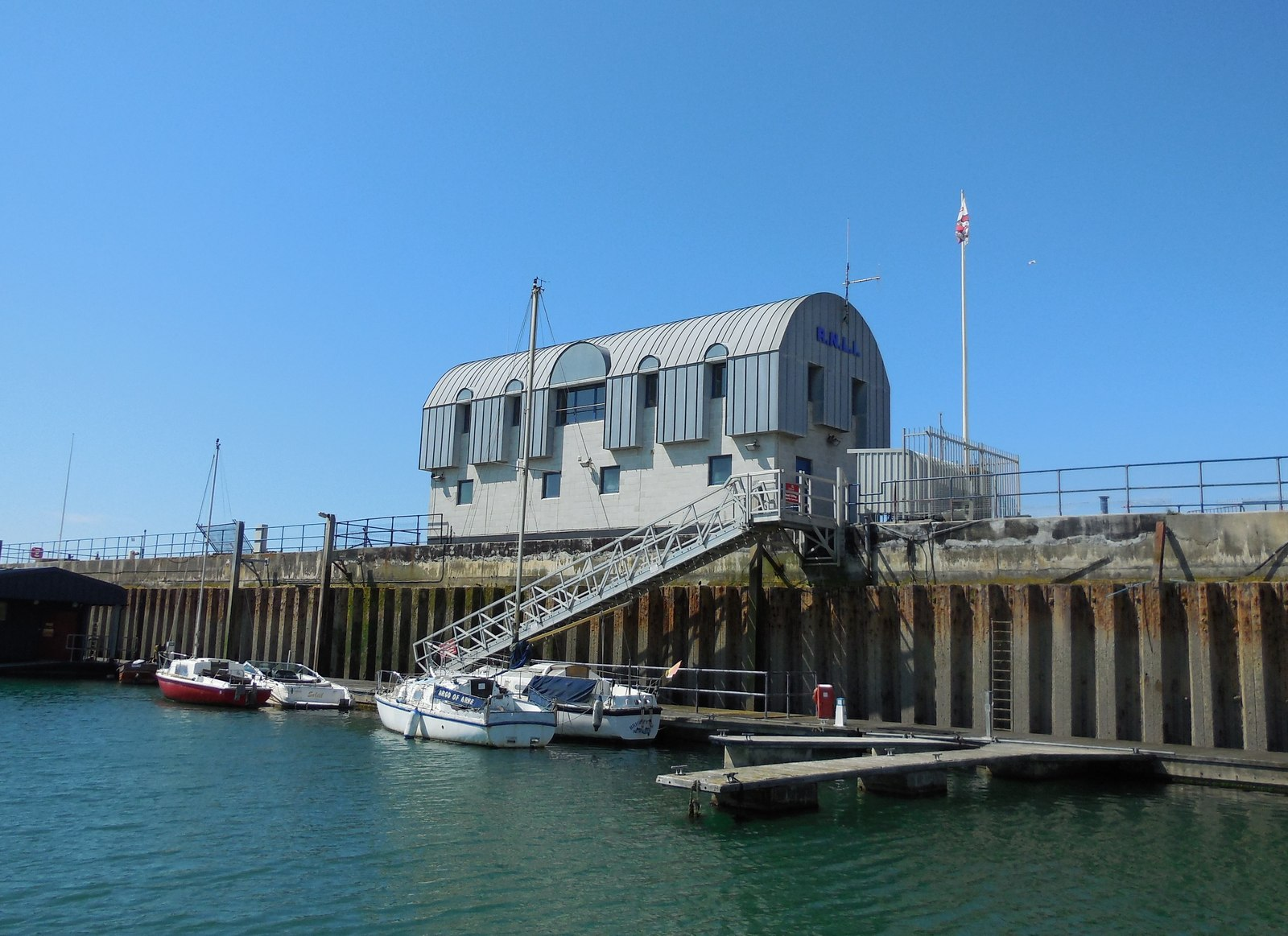 Brighton Lifeboat Station